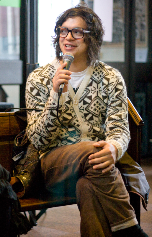 Sam Duckworth seated with a microphone.